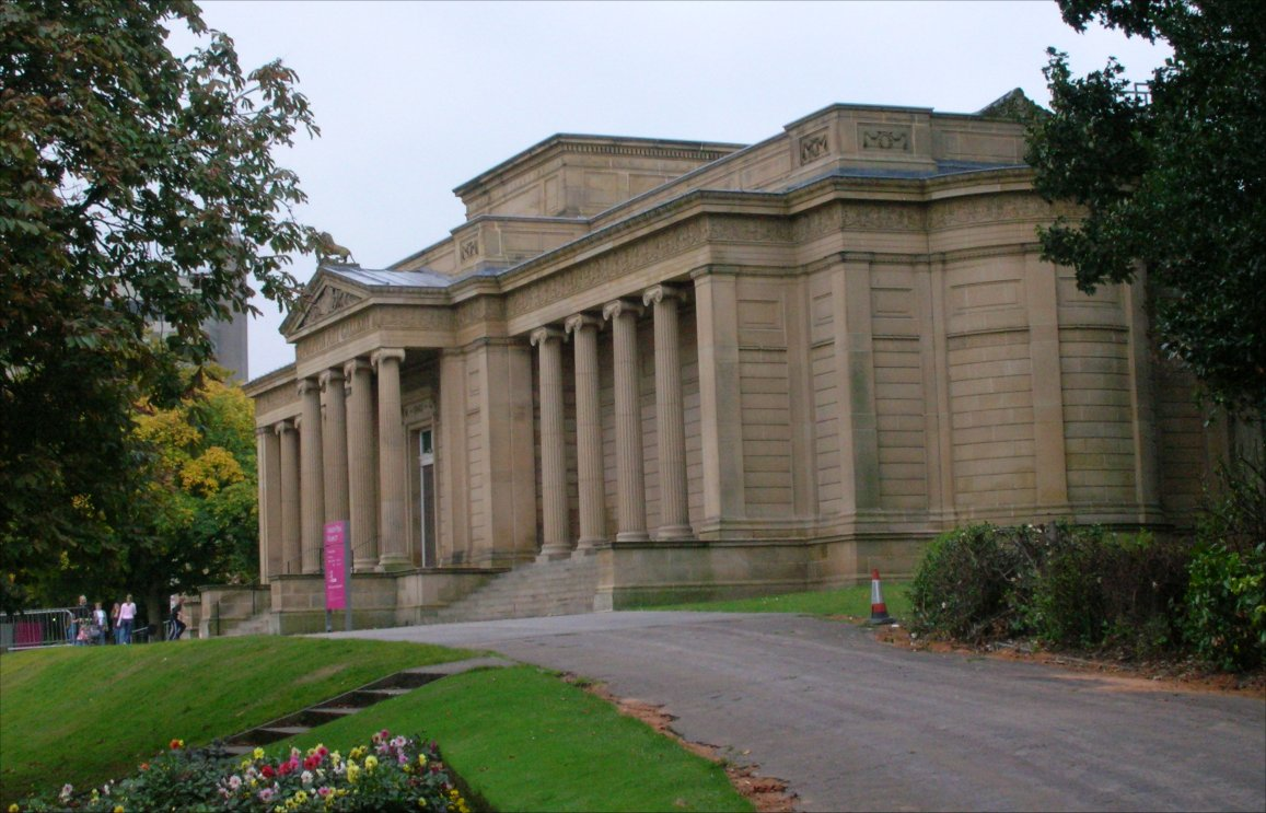 The Mappin Art gallery, part of Weston Park Museum, Sheffield, England. Photographed by me 23 September 2007. Oosoom